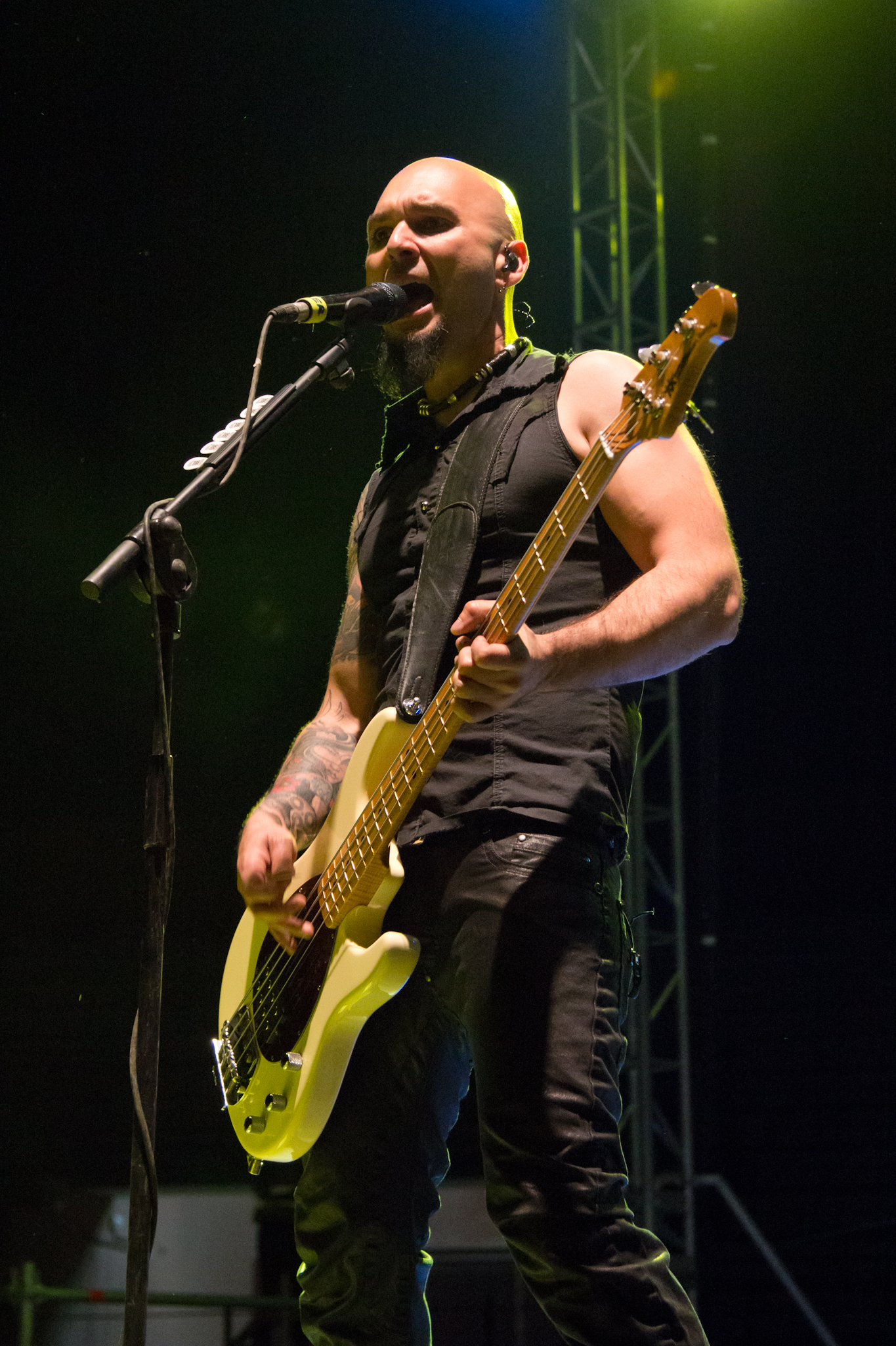 Spanish metal band Sôber at Asaco Metal Fest 2013, Parla, Spain.